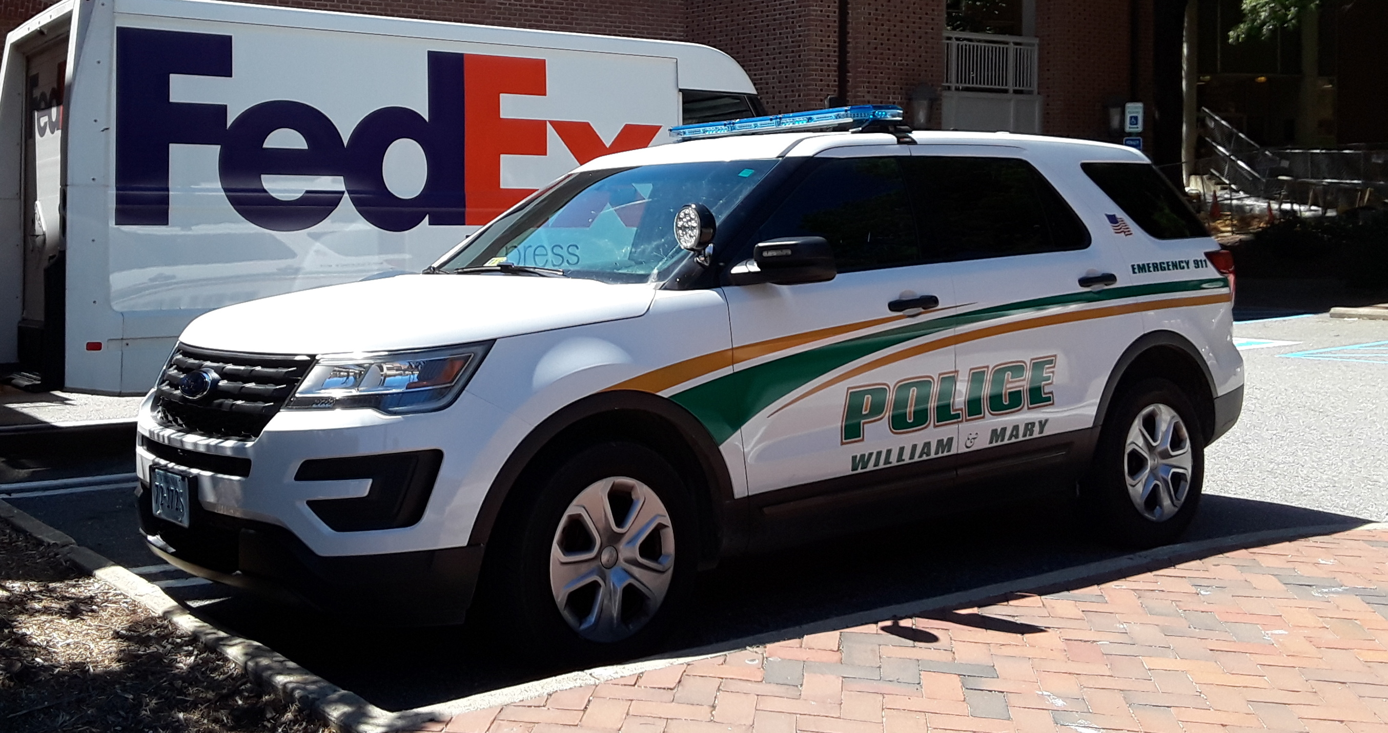 Campus police vehicle at the College of William & Mary, Williamsburg, Virginia